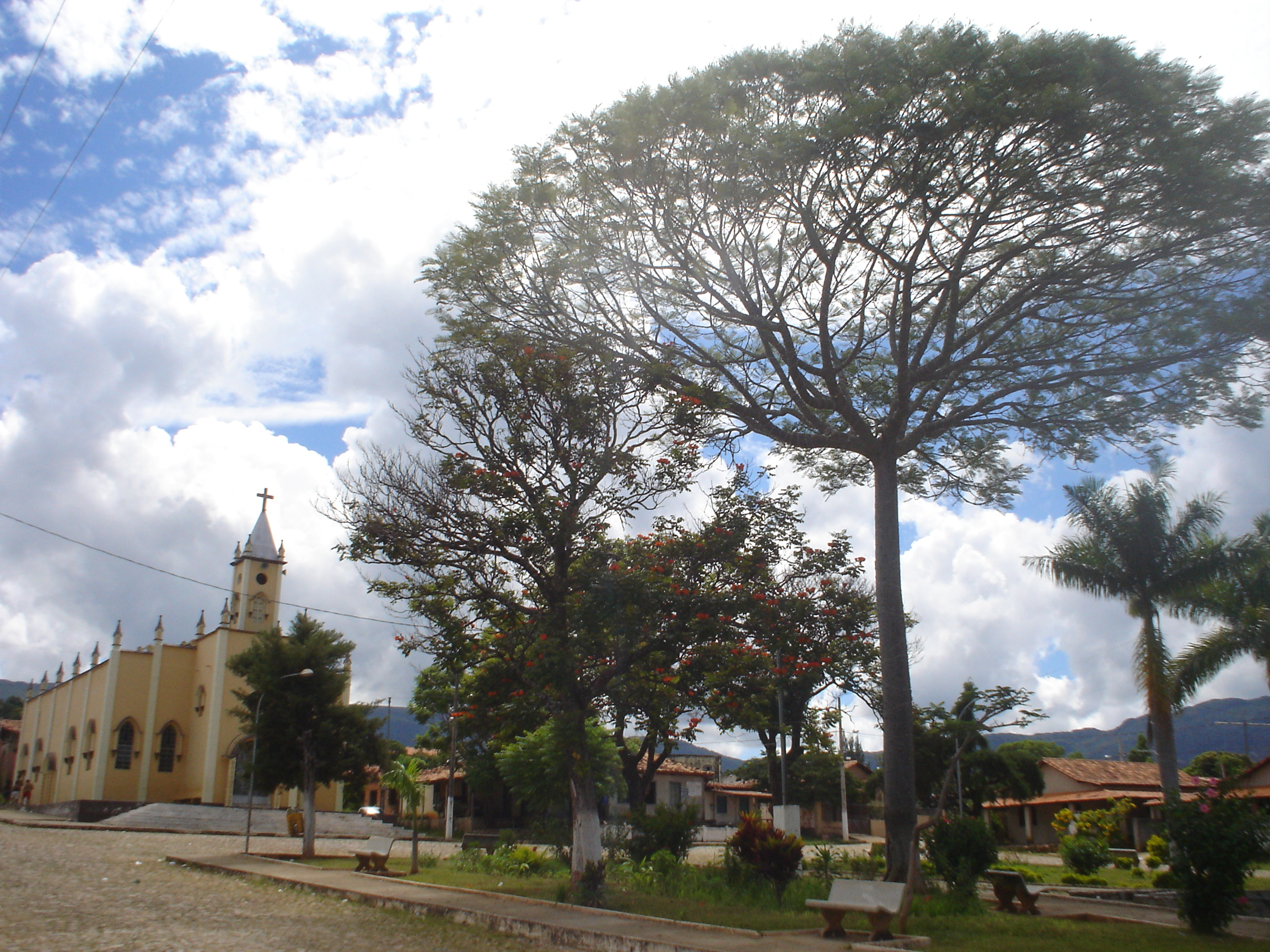 Santana do Riacho - MG main square.